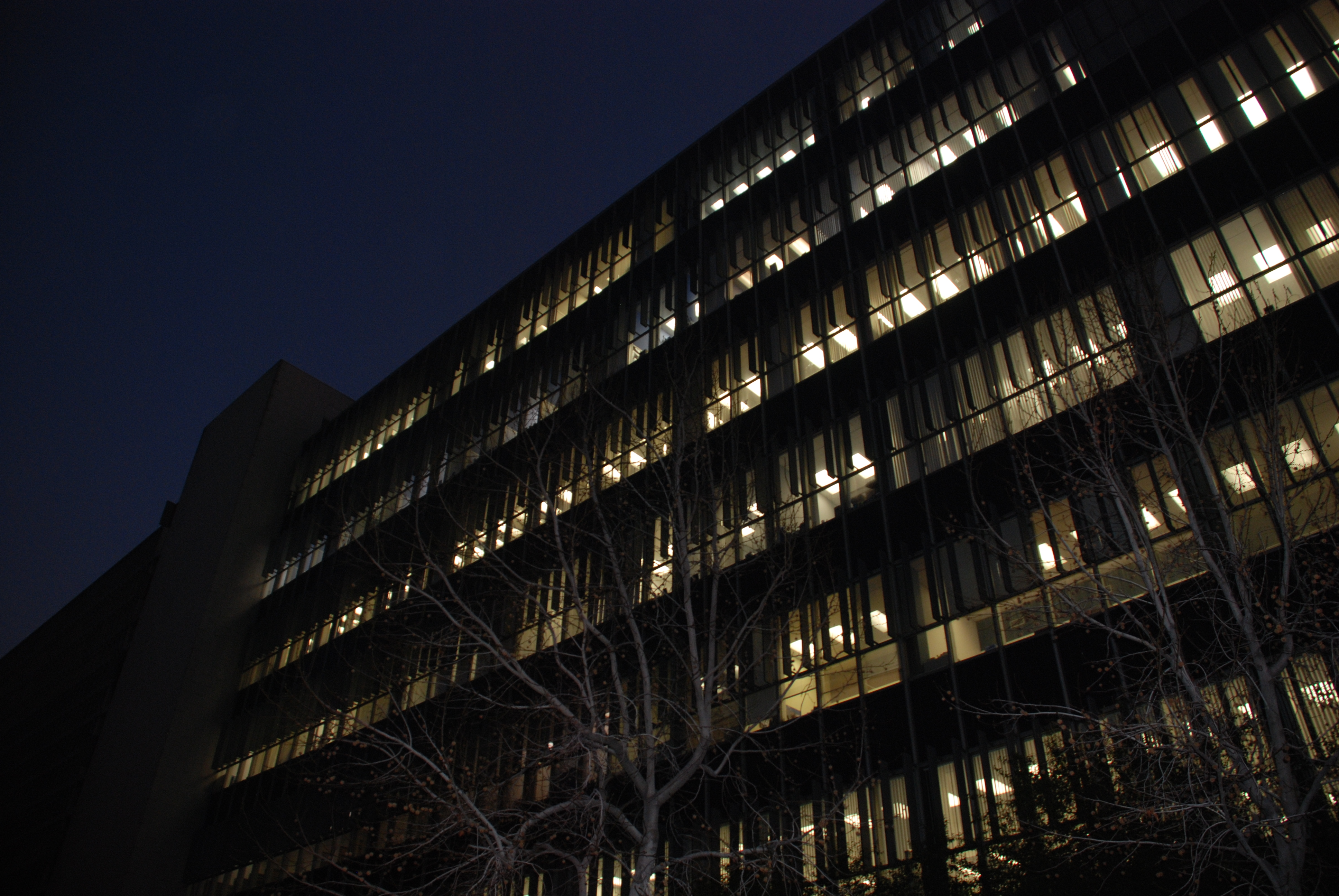 North side of the Los Angeles County Hall of Records at night.